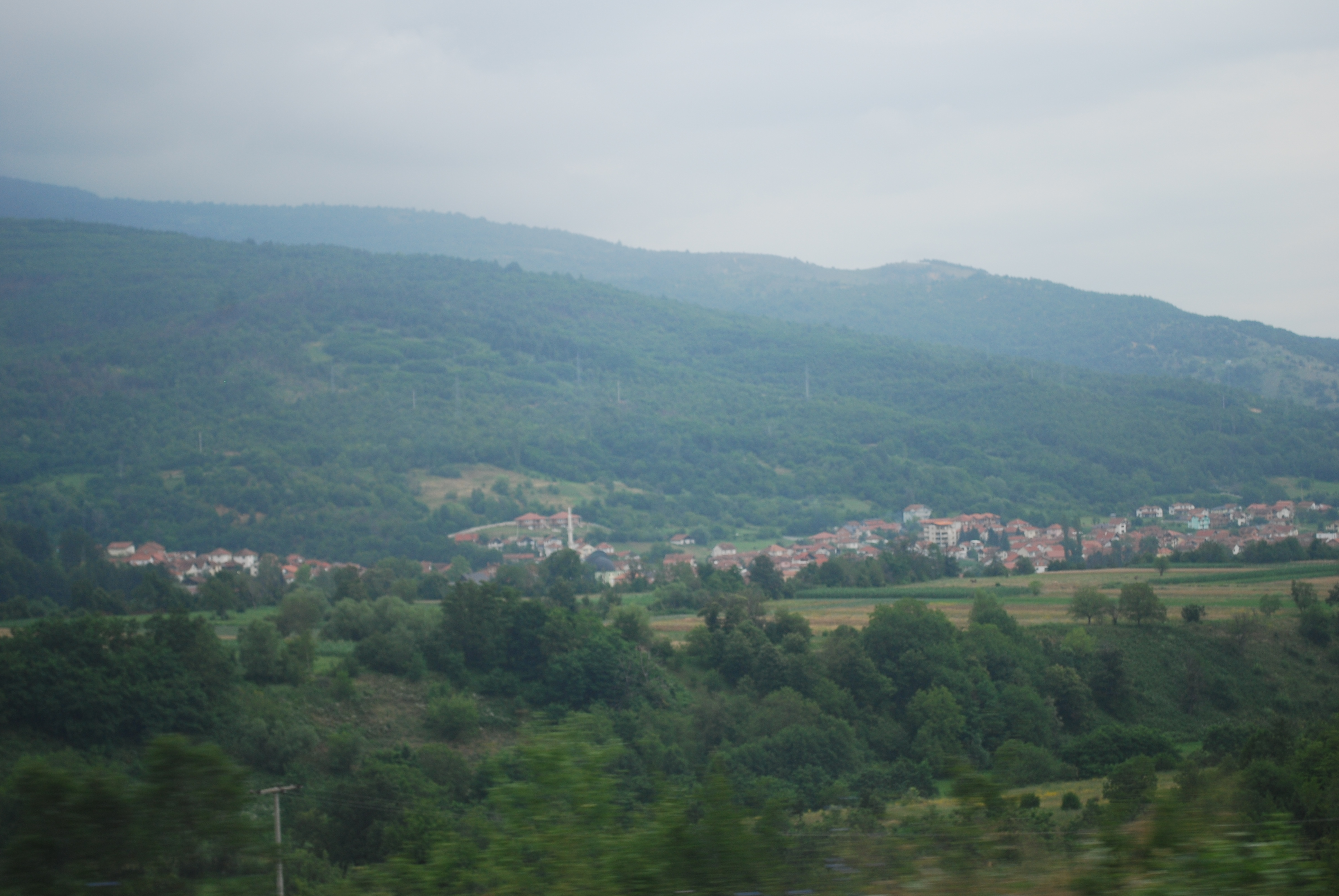 Raven, Gostivar, Macedonia